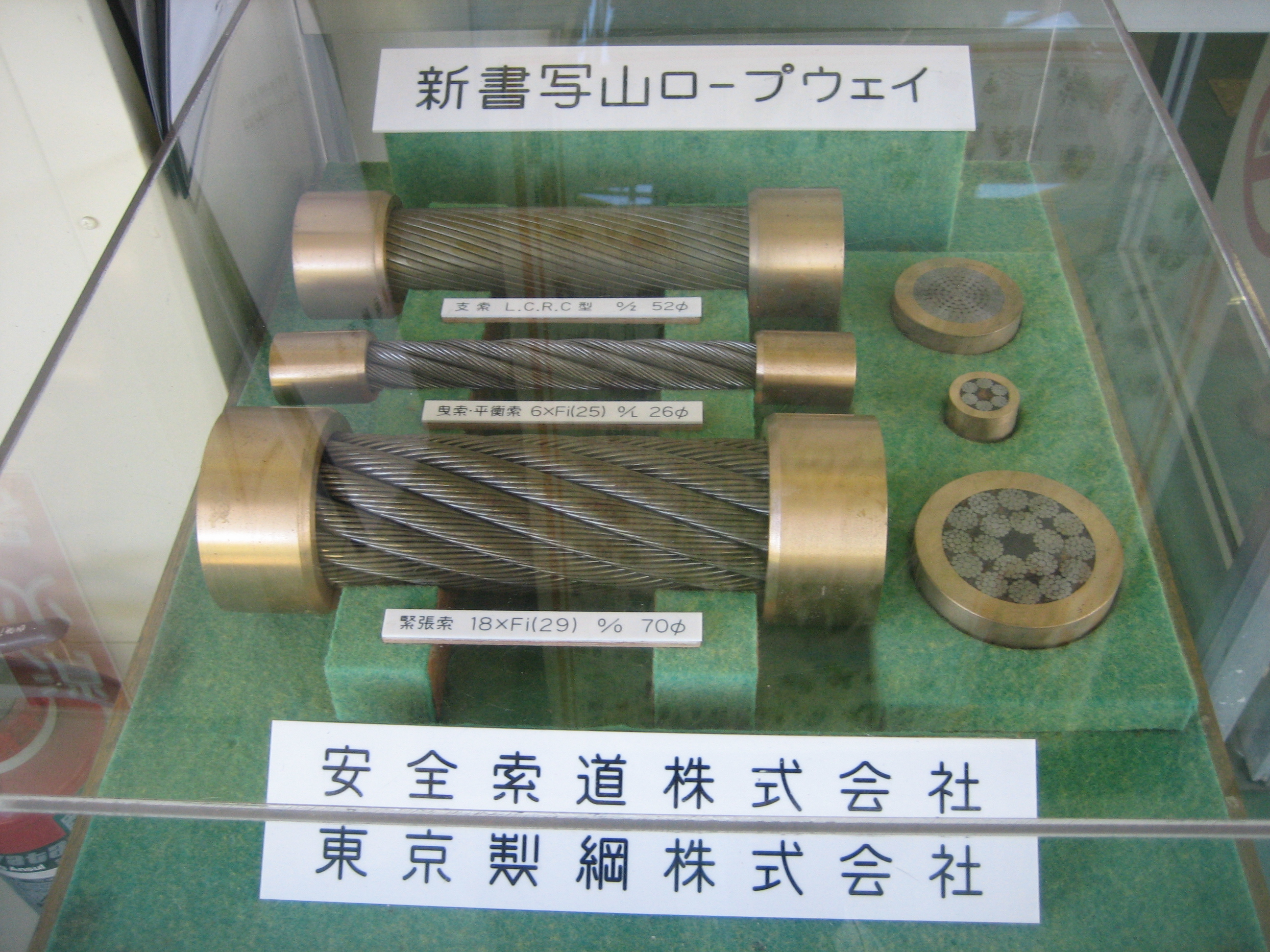 Sample of cable currently used by Shosha ropeway.